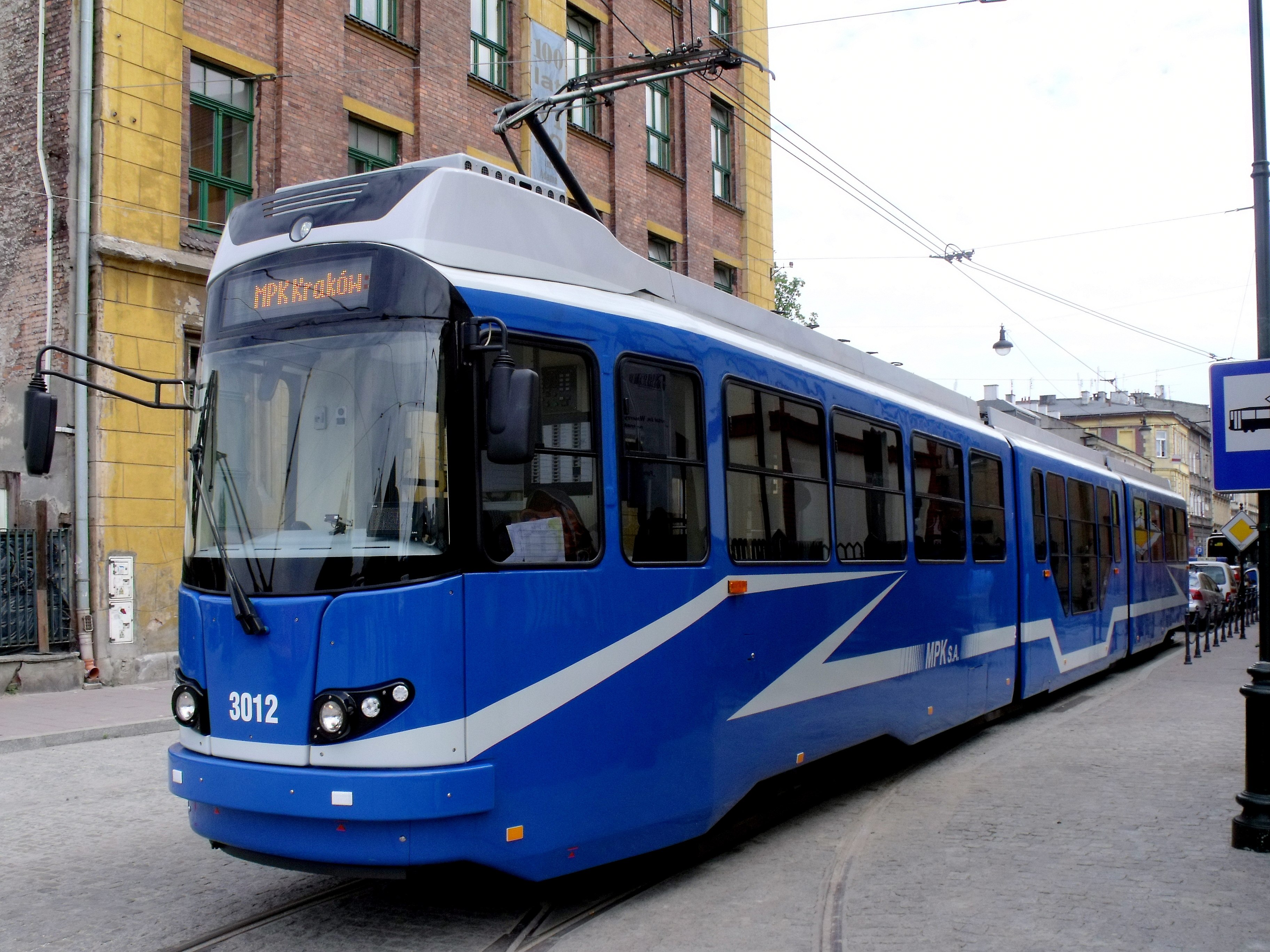 EU8N tram No. 3012 in Kraków from other side.